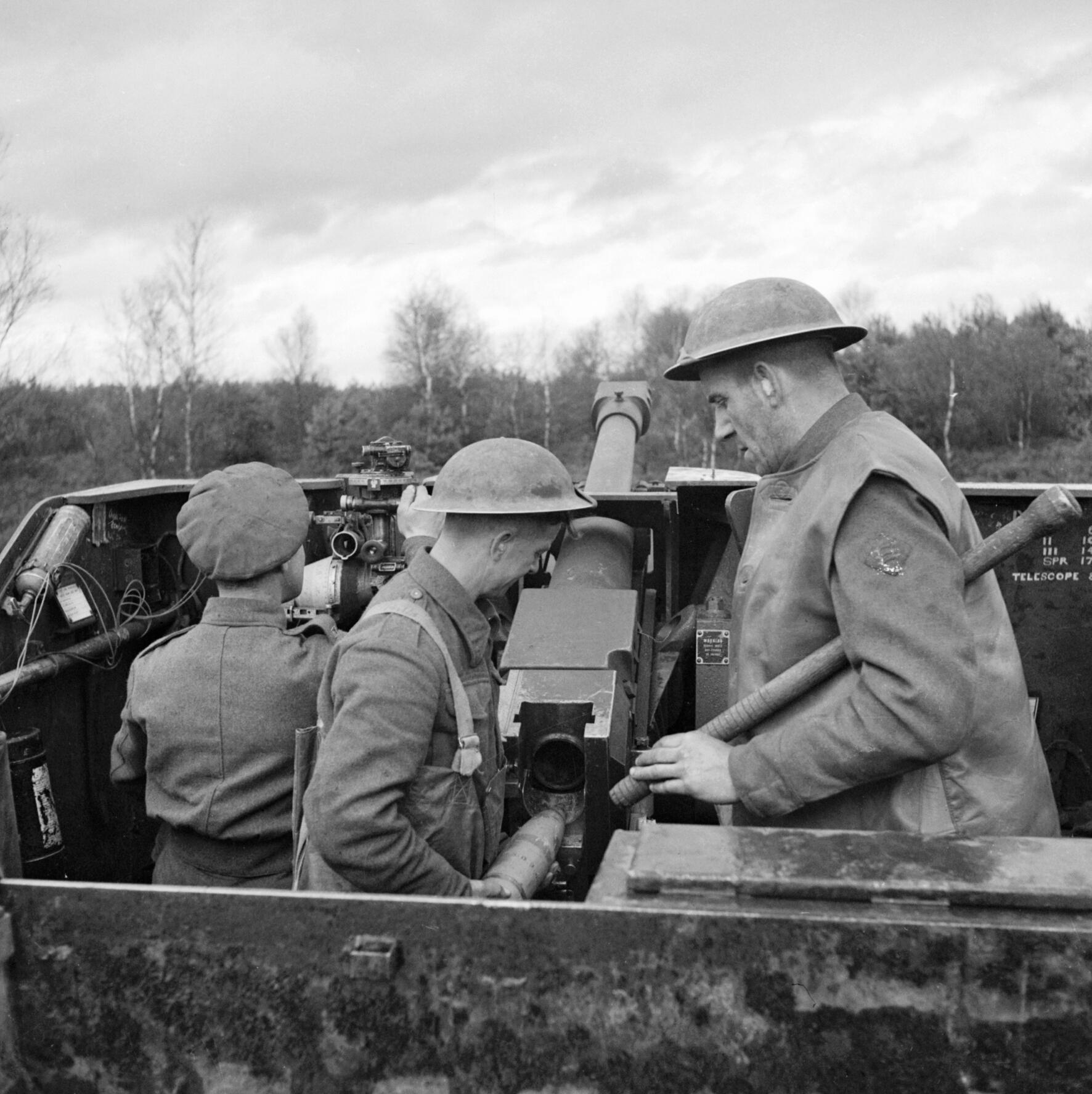 The British Army in North-west Europe 1944-45 The crew of a Sexton self-propelled gun of 147th (Essex Yeomanry) Field Regiment, the first Royal Artillery unit to fire its guns in Germany, 21 November 1944.